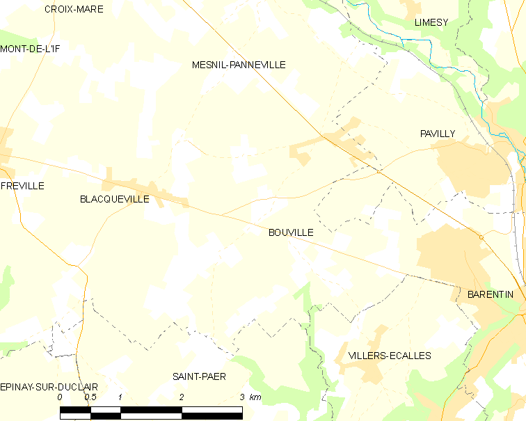 Map of French municipality Bouville